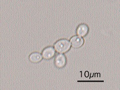 microscopic image of Candida albicans ATCC 10231, pseudohypha-like cluster by budding. magnification:600.